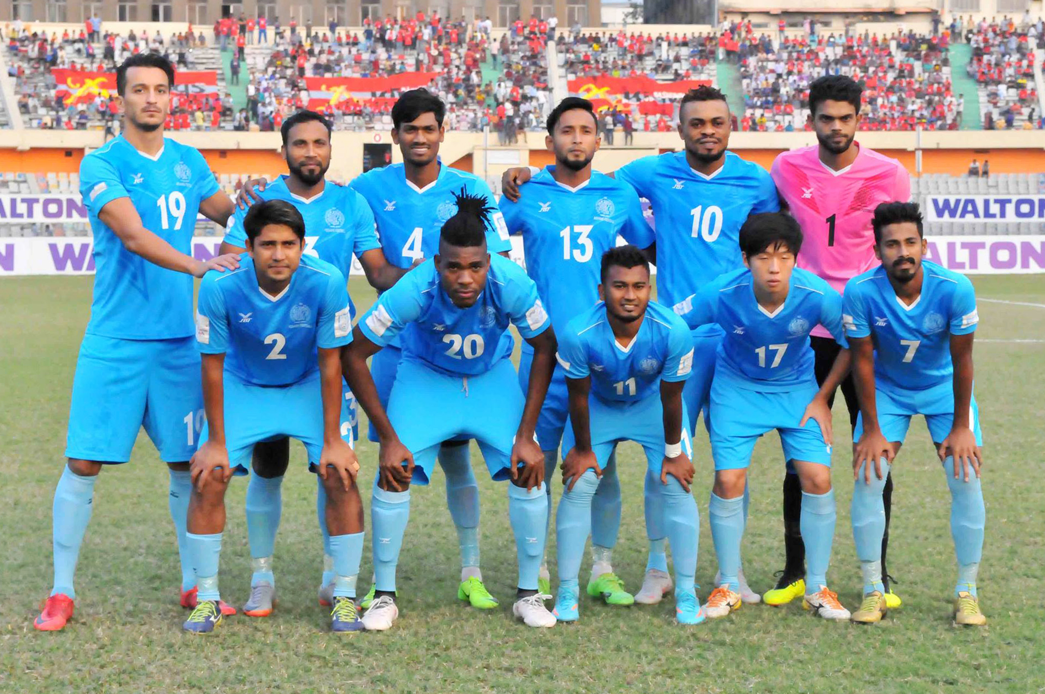 Dhaka Abahani Team Photo before facing Bashundhara Kings in the Federation Cup 2018 final.